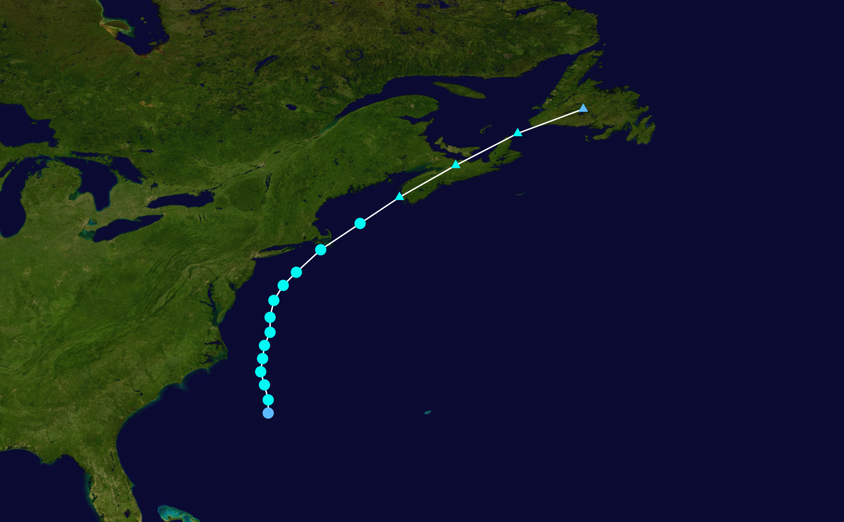 Track map of Tropical Storm Beryl of the 2006 Atlantic hurricane season. The points show the location of the storm at 6-hour intervals. The colour represents the storm's maximum sustained wind speeds as classified in the Saffir–Simpson scale (see below), and the shape of the data points represent the nature of the storm, according to the legend below. Saffir–Simpson scale Tropical depression≤38 mph≤62 km/h Category 3111–129 mph178–208 km/h Tropical storm39–73 mph63–118 km/h Category 4130–156 mph209–251 km/h Category 174–95 mph119–153 km/h Category 5≥157 mph≥252 km/h Category 296–110 mph154–177 km/h Unknown Storm type Tropical cyclone Subtropical cyclone Extratropical cyclone / Remnant low / Tropical disturbance / Monsoon depression